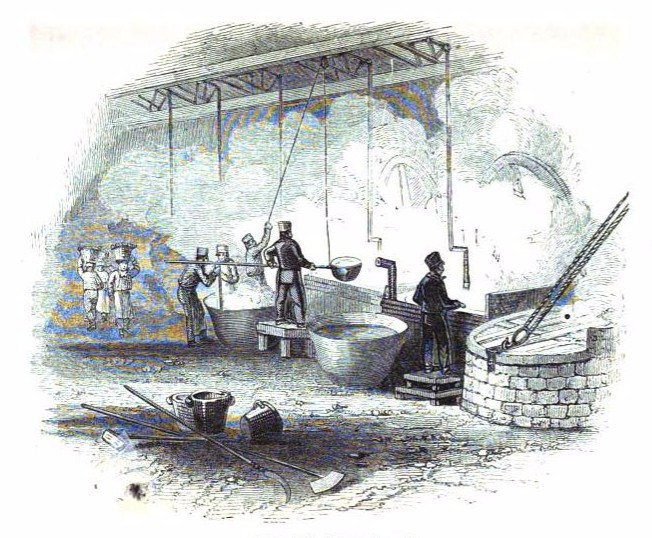 Illustration of soap-boiling coppers, chapter "A Day at a Soap and Candle Factory", in George Dodd, Days at the Factories (1843). At the Hawes Soap Works, Blackfriars, London.